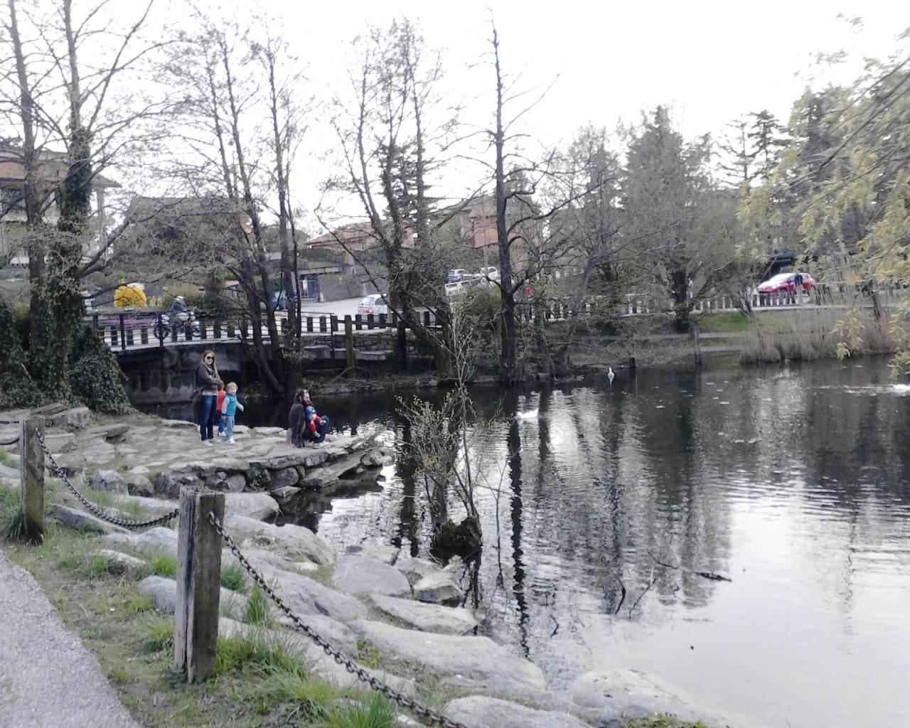 Eupilio ITALY - The lakefront